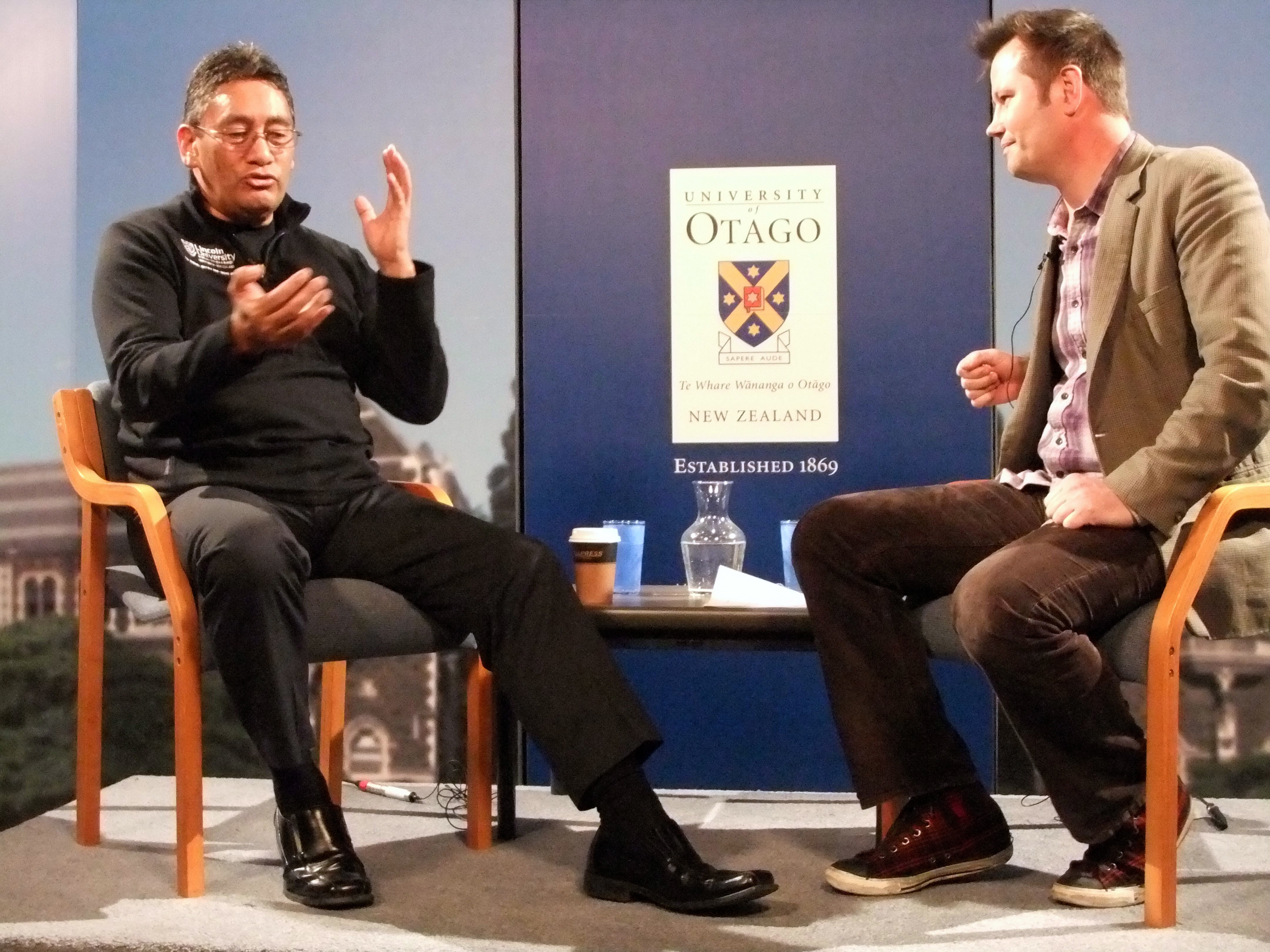 Bryce Edwards talking to Mana's Hone Harawira in a University of Otago 'Vote Chat' election year forum in 2011.